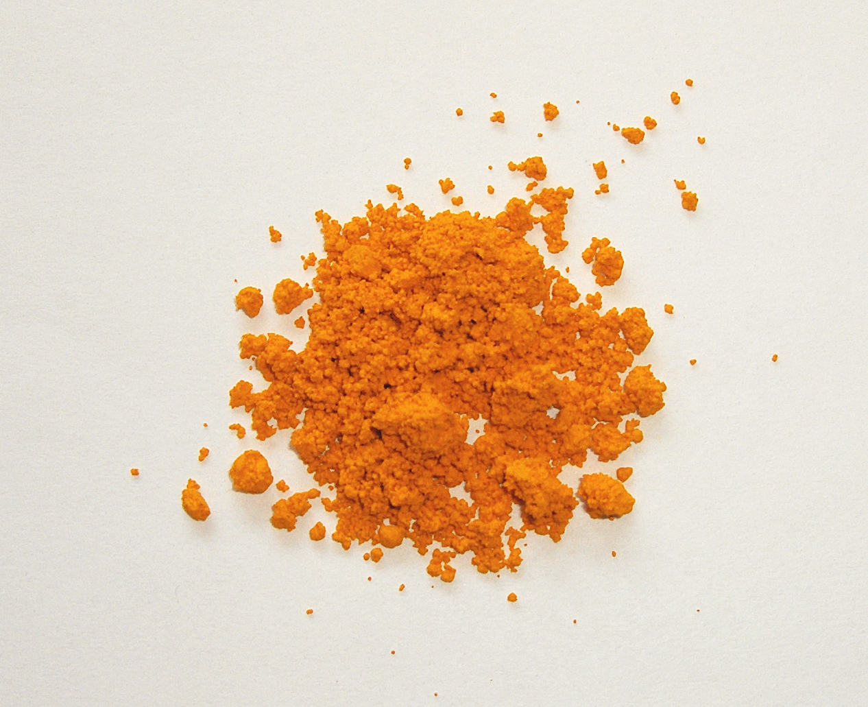 Some miligrams of riboflavin powder.